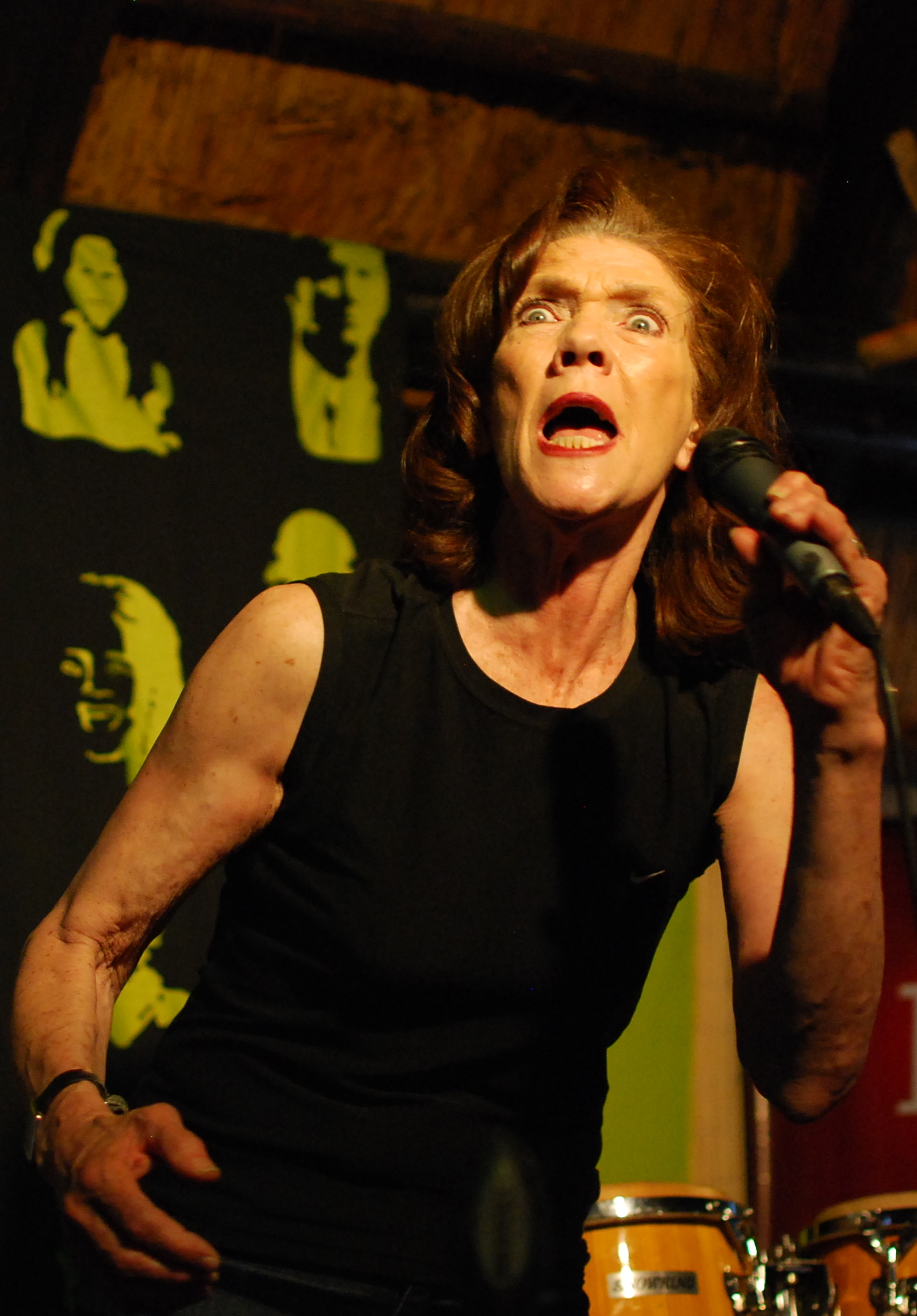 Linda Marlowe Animated veteran at the HIVOS Poetry Cafe!